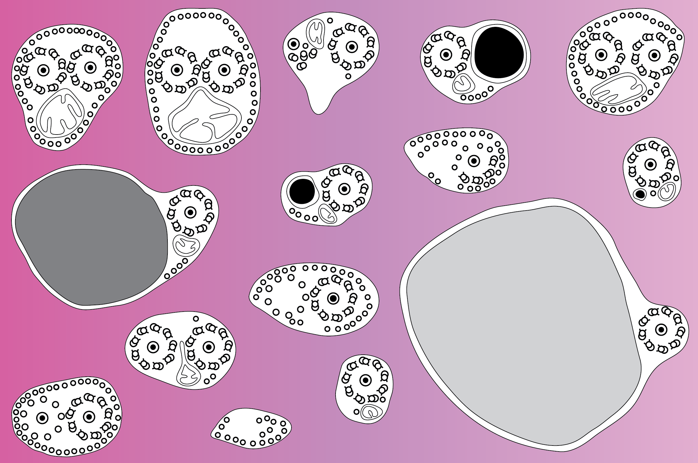 Transverse sections of spermatozoa of Chimaericola leptogaster (Monogenea, Chimaericolidae), on coloured background. These are drawings from transmission electron microcopy studies.